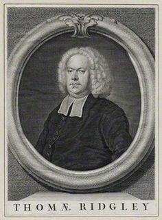 Thomas Ridgley, D.D. (c. 1667–1734), independent theologian.